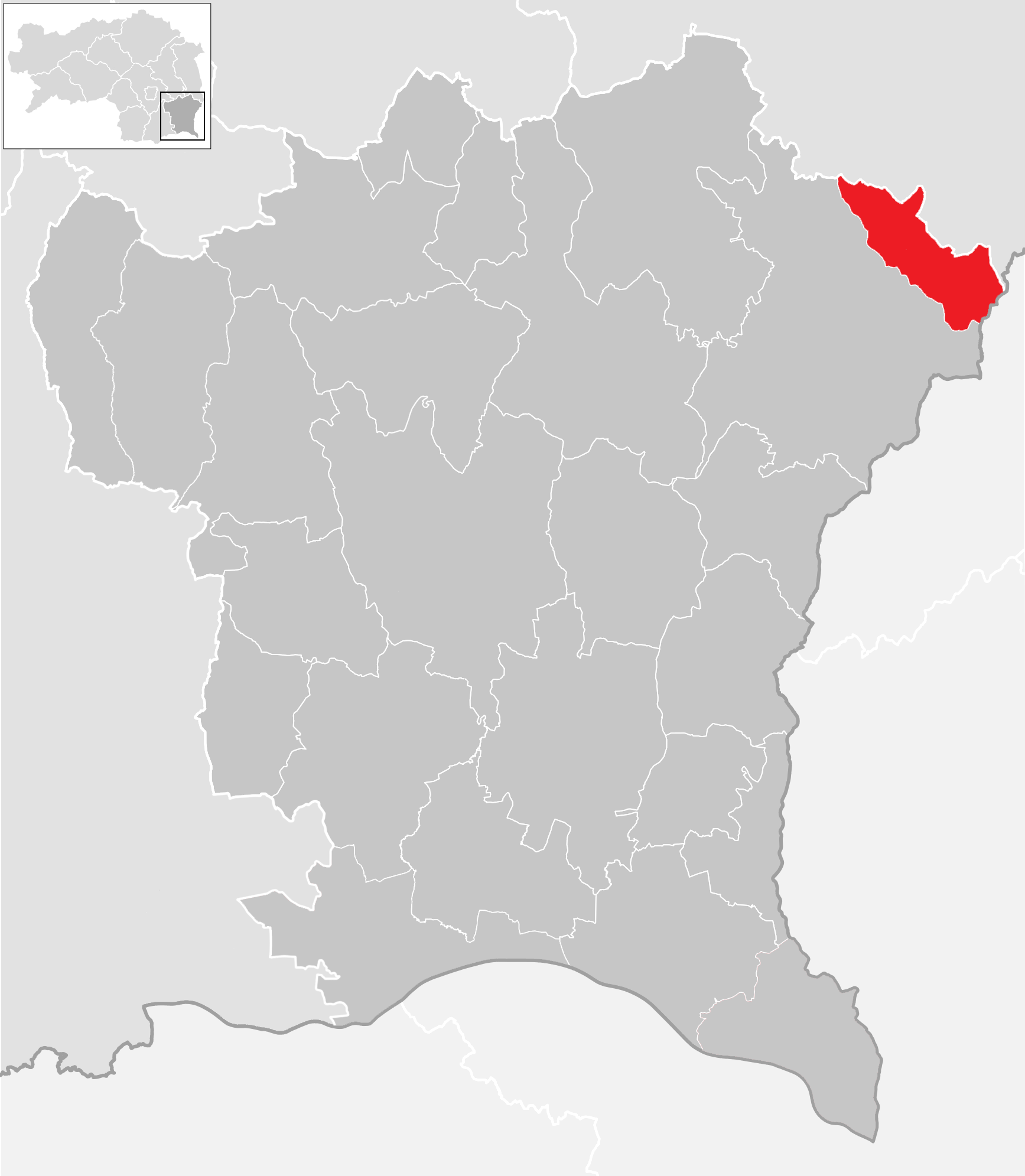 district Südoststeiermark